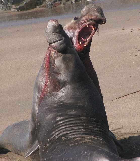 Two large adult males fighting on a beach for territory north of the Piedras Blancas lighthouse, central coast CA.